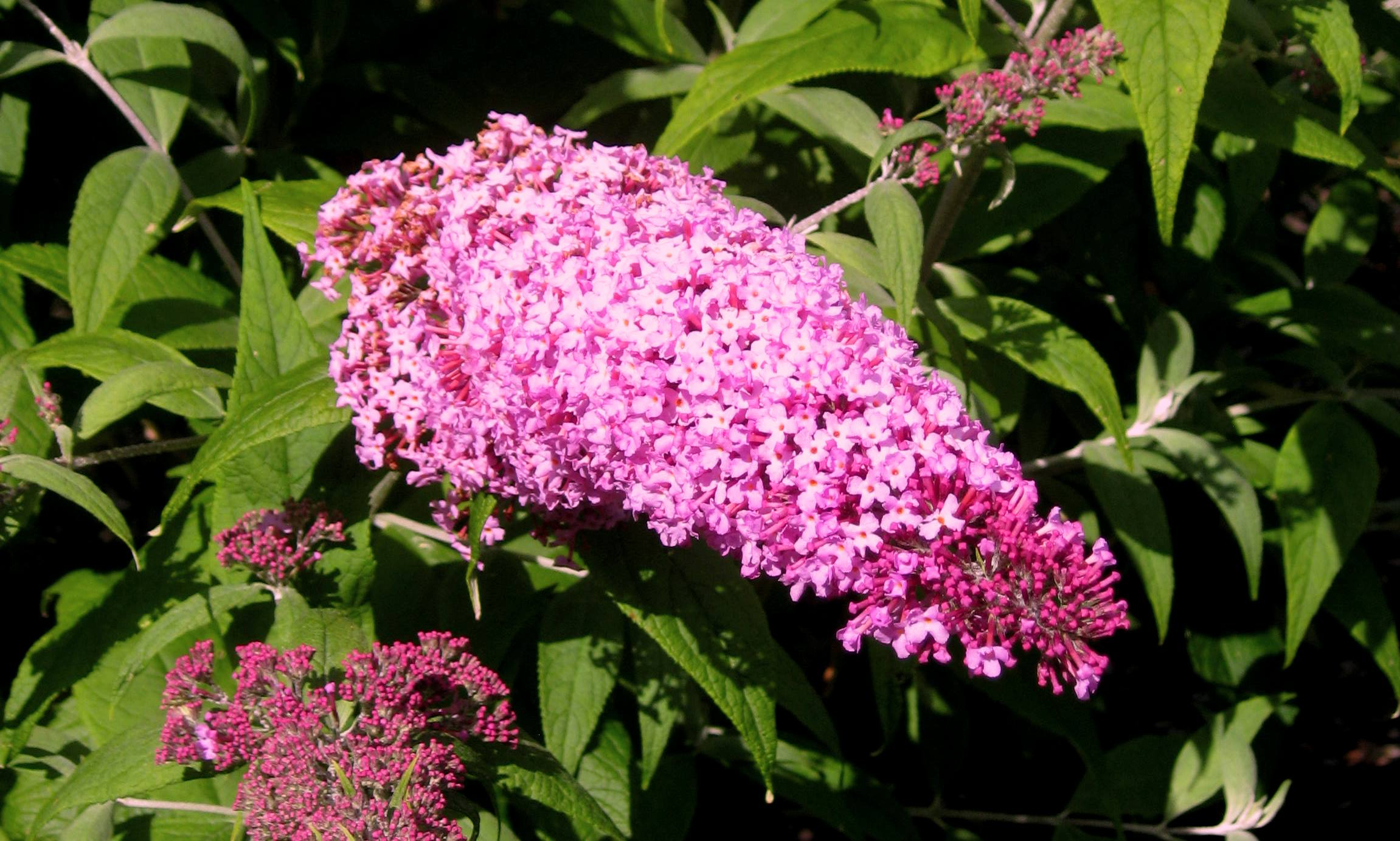 Photo of panicle of Buddleja hybrid cultivar 'Pink Delight'.